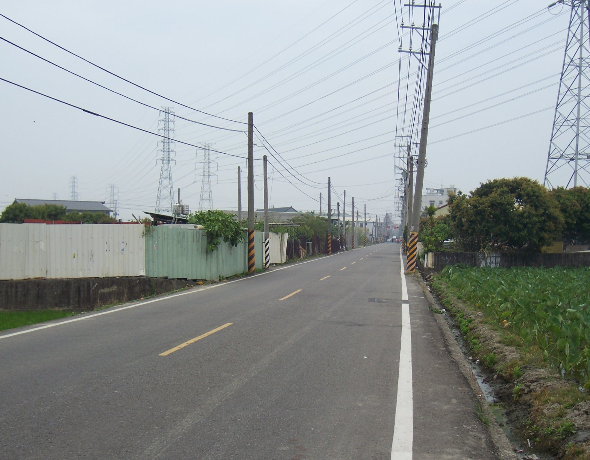 Jinzhou Road, Wufong Township, Taichung County.